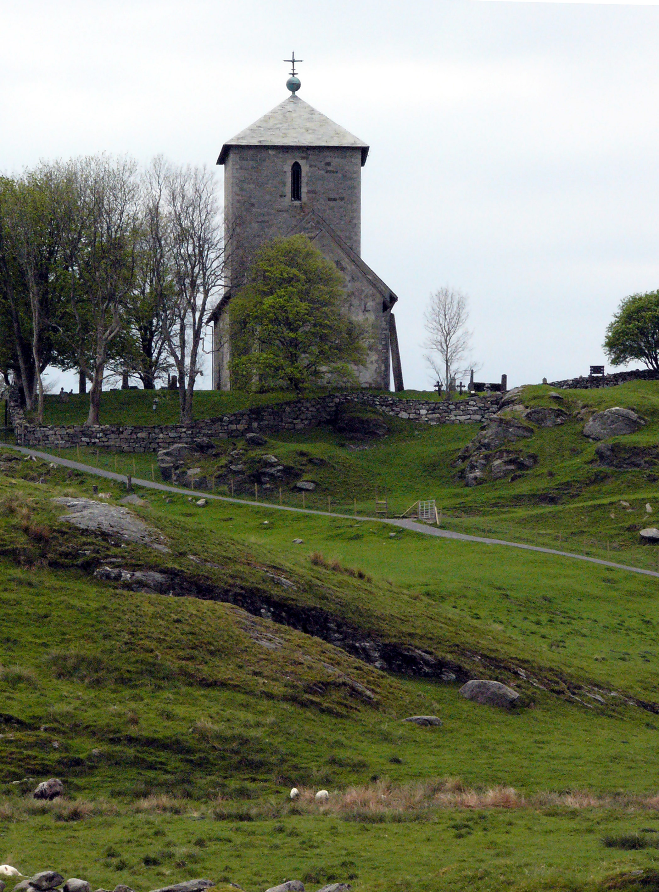 Avaldsnes church St. Olav, back.